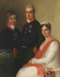 Detail of the "Portrait of the Family of the 1st Viscount of Santarém" (1816), by Domingos Sequeira - the future 2nd Viscount of Santarém and his aunt and uncle, the Viscounts of Vila Nova da Rainha.